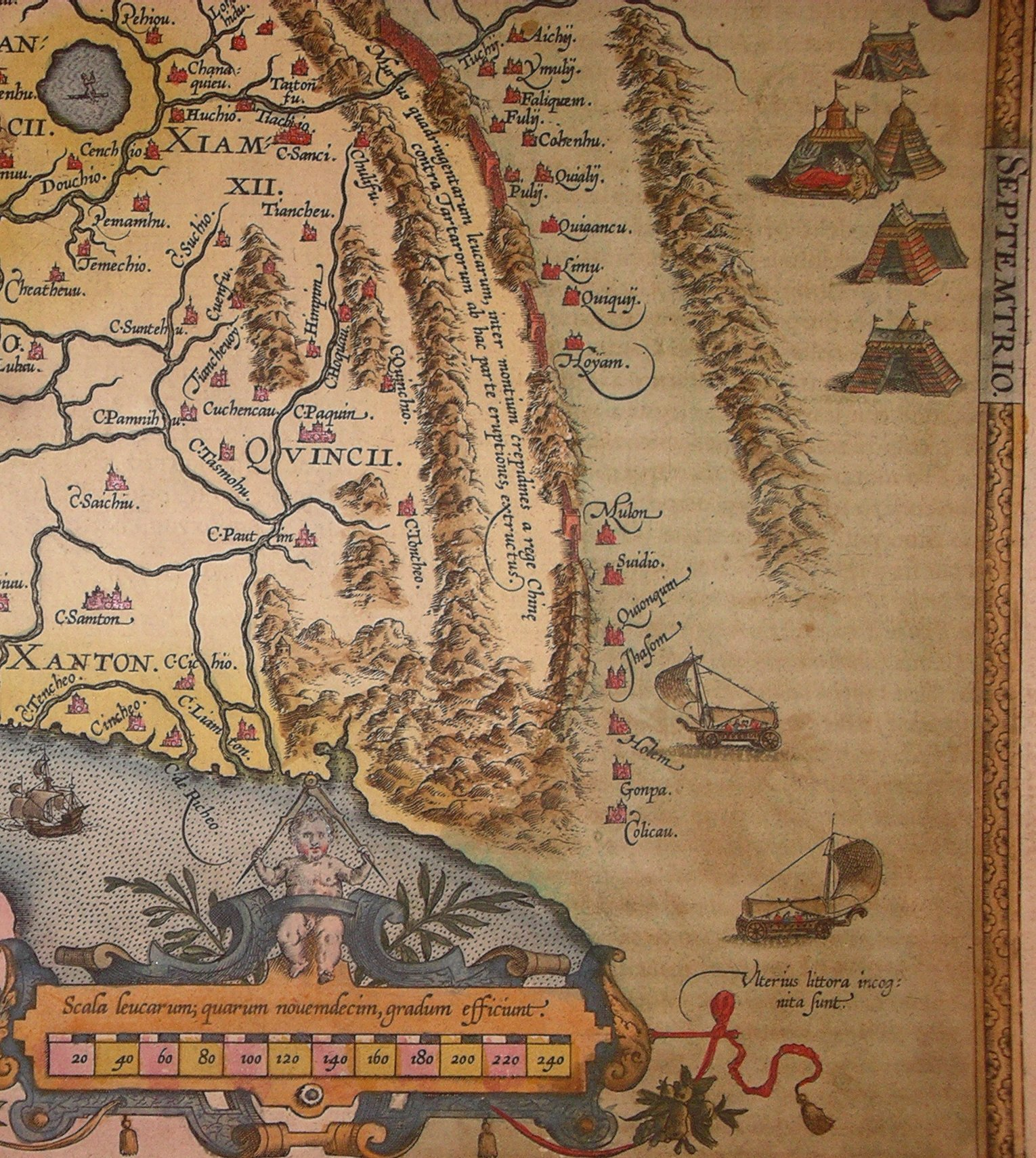 Detail of the map of China engraved by Abraham Ortelius (1584), the first map of China printed in a European atlas. "C.Paquin" is Beijing (Peking). The Latin text next to the Great Wall says: "Murus quadringentarum leucarum inter montium crepidines a Rege Chinæ contra Tartarorum ab hac parte eruptiones extructus." Translation to